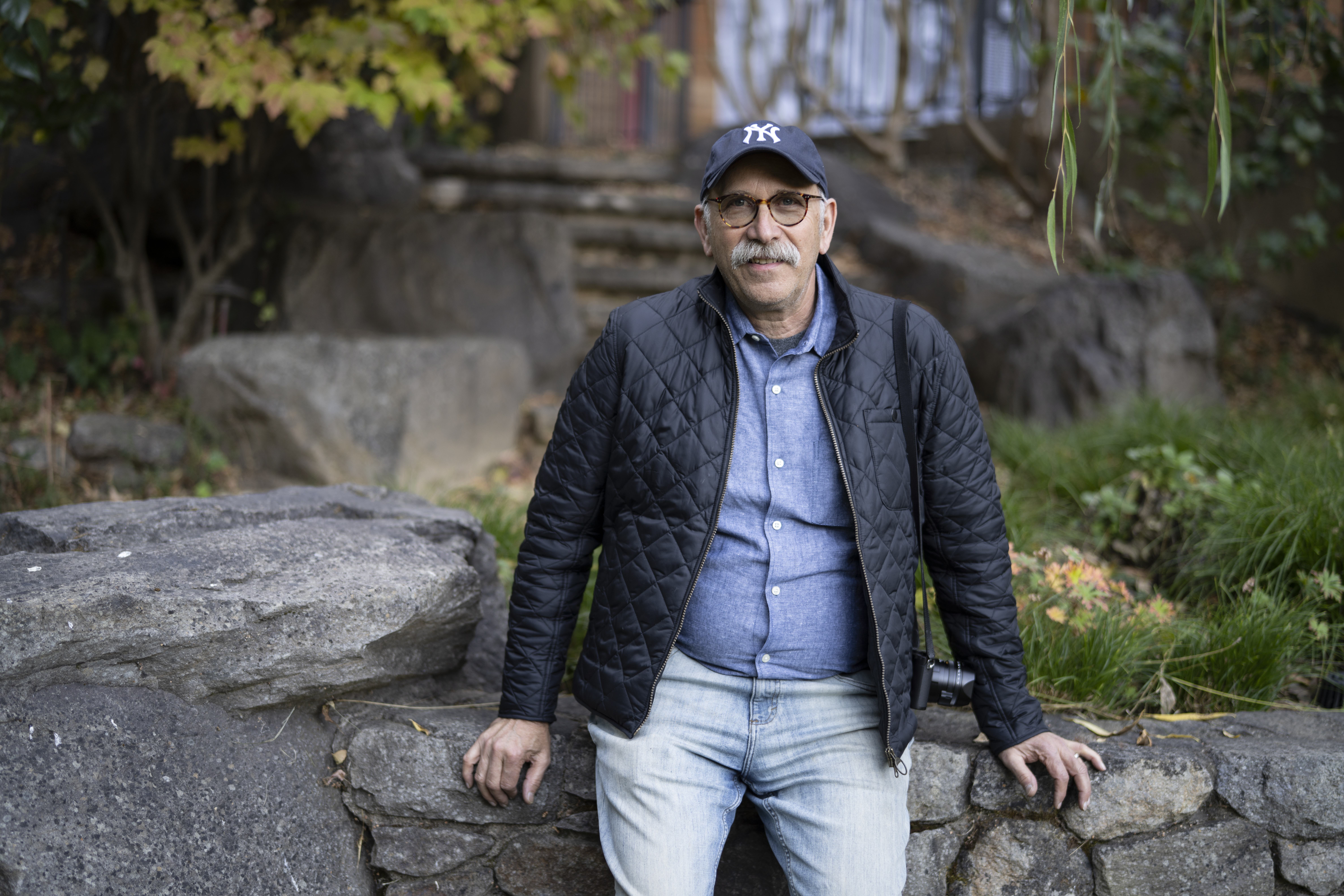 Ken Light at the Catchlight Summit 2019.